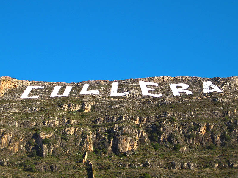 Image of the mountain of Cullera, Land of valencia, Spain